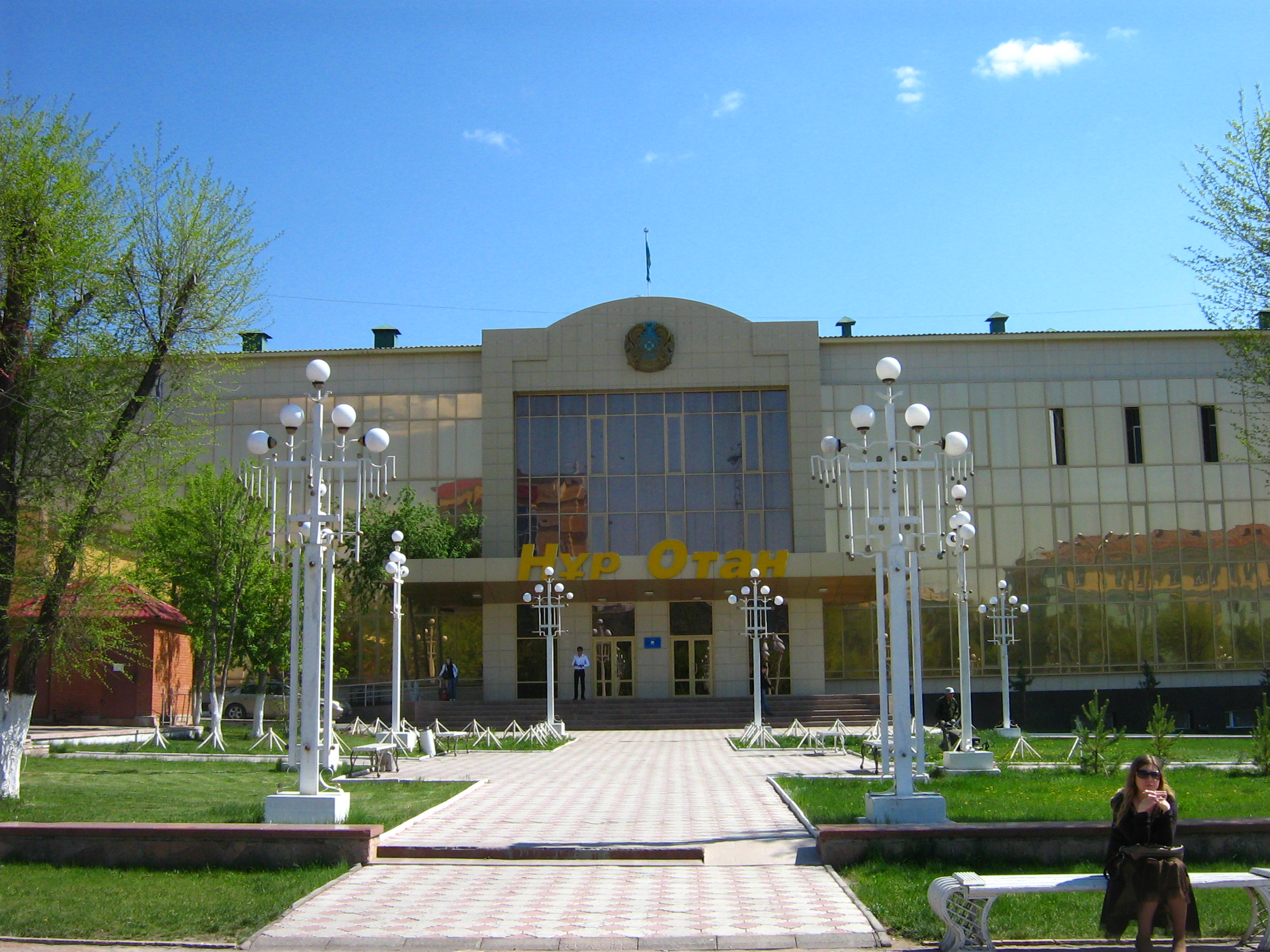 Nur Otan Party's Office in Karaganda, Kazakhstan